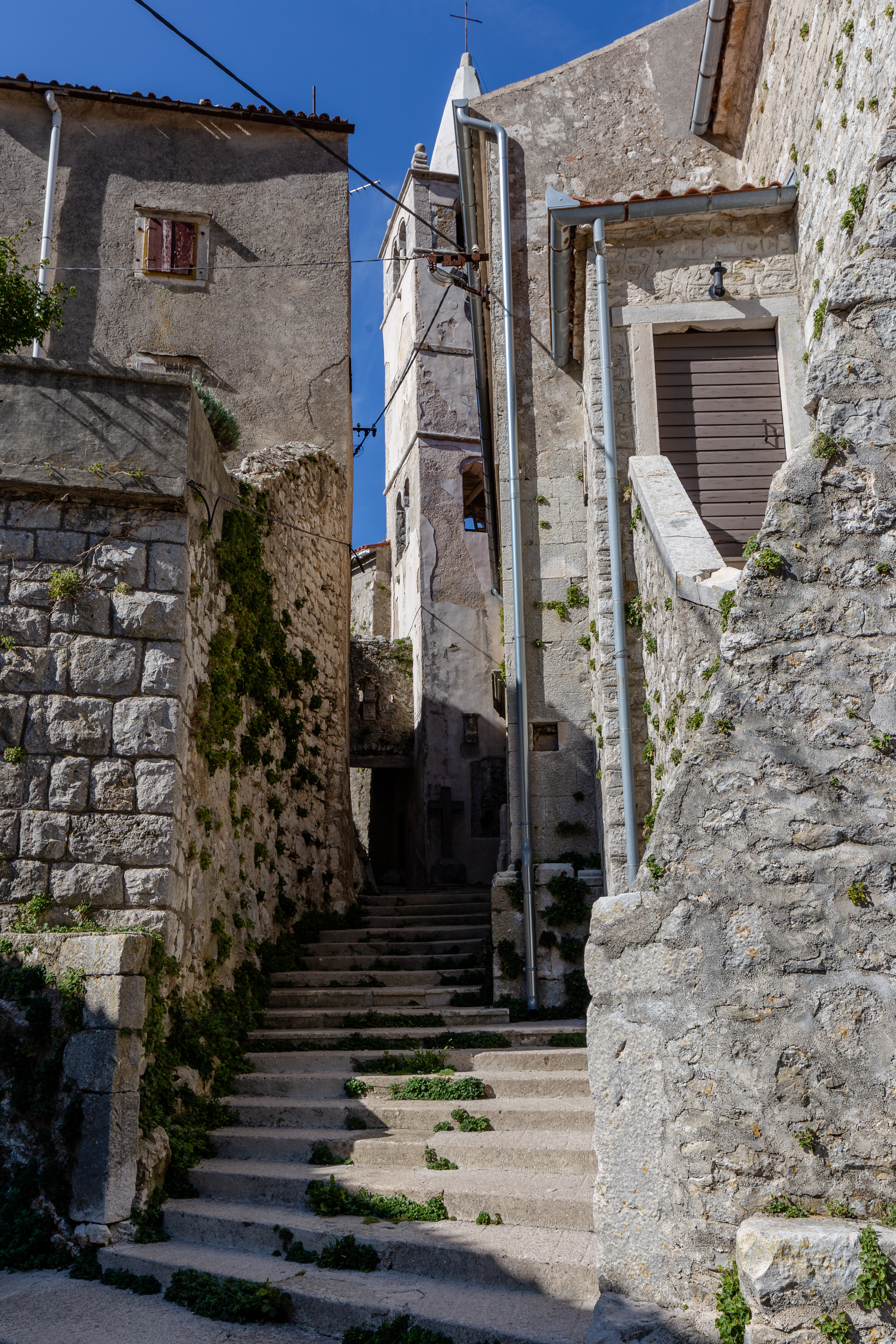 Stairs to the city center of Plomin, Istria County, Croatia